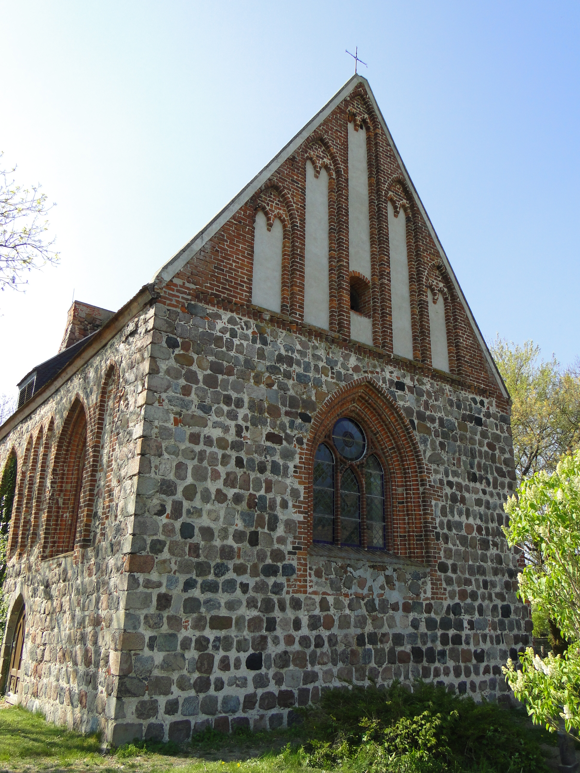 Church in Lindow, district Mecklenburg-Strelitz, Mecklenburg-Vorpommern, Germany